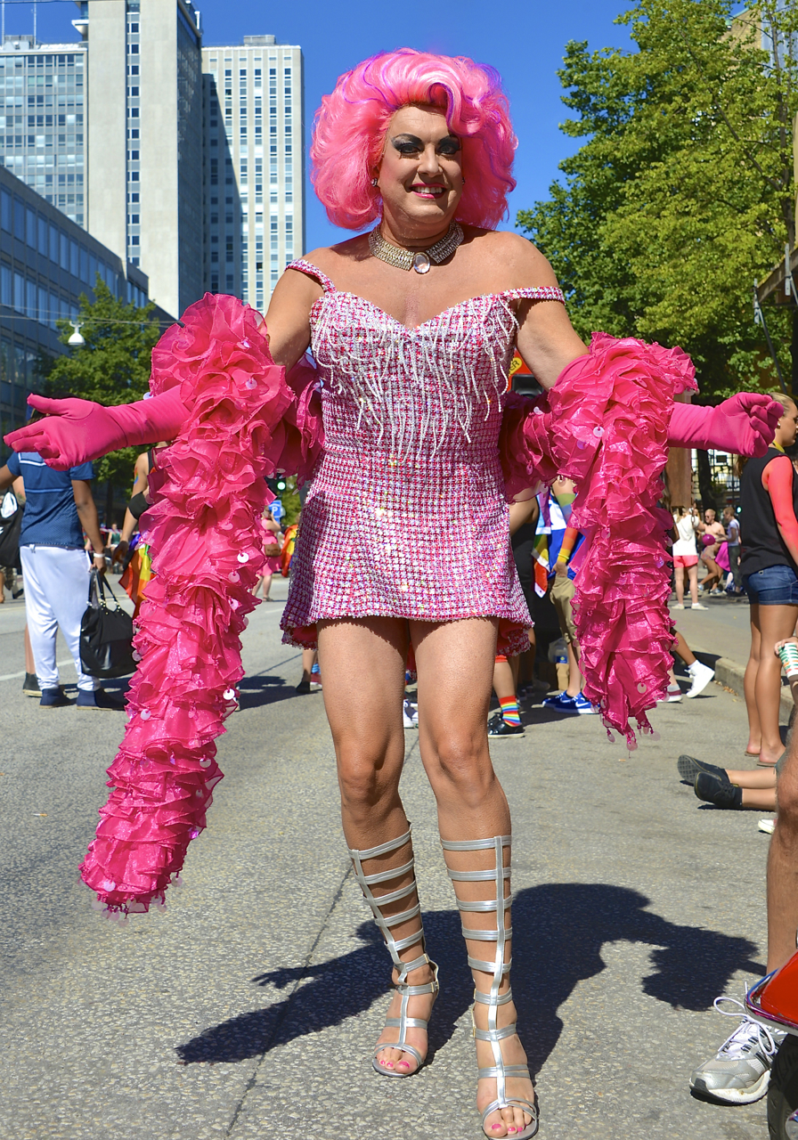 The concluding Pride Parade during Stockholm Pride 2013.